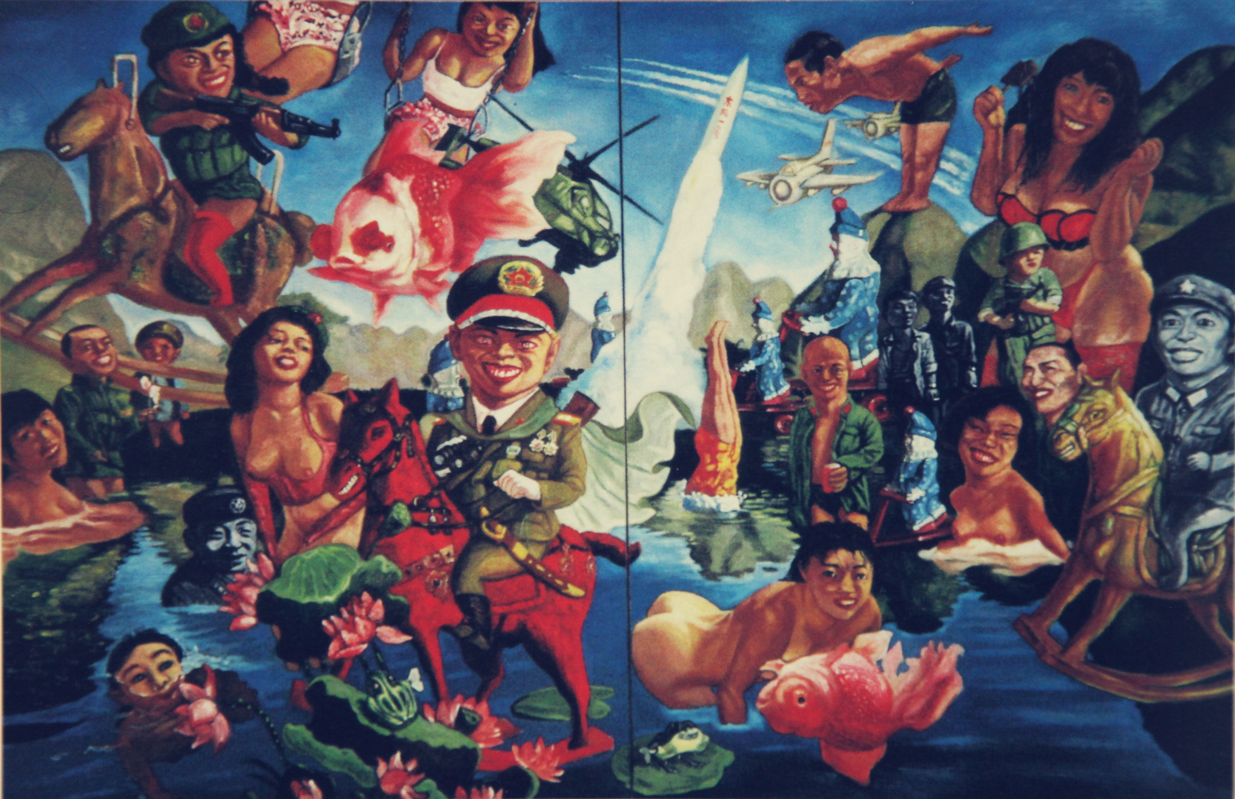 Excitement, Great Landscape II, 1998, oil on canvas 122 x 190cm